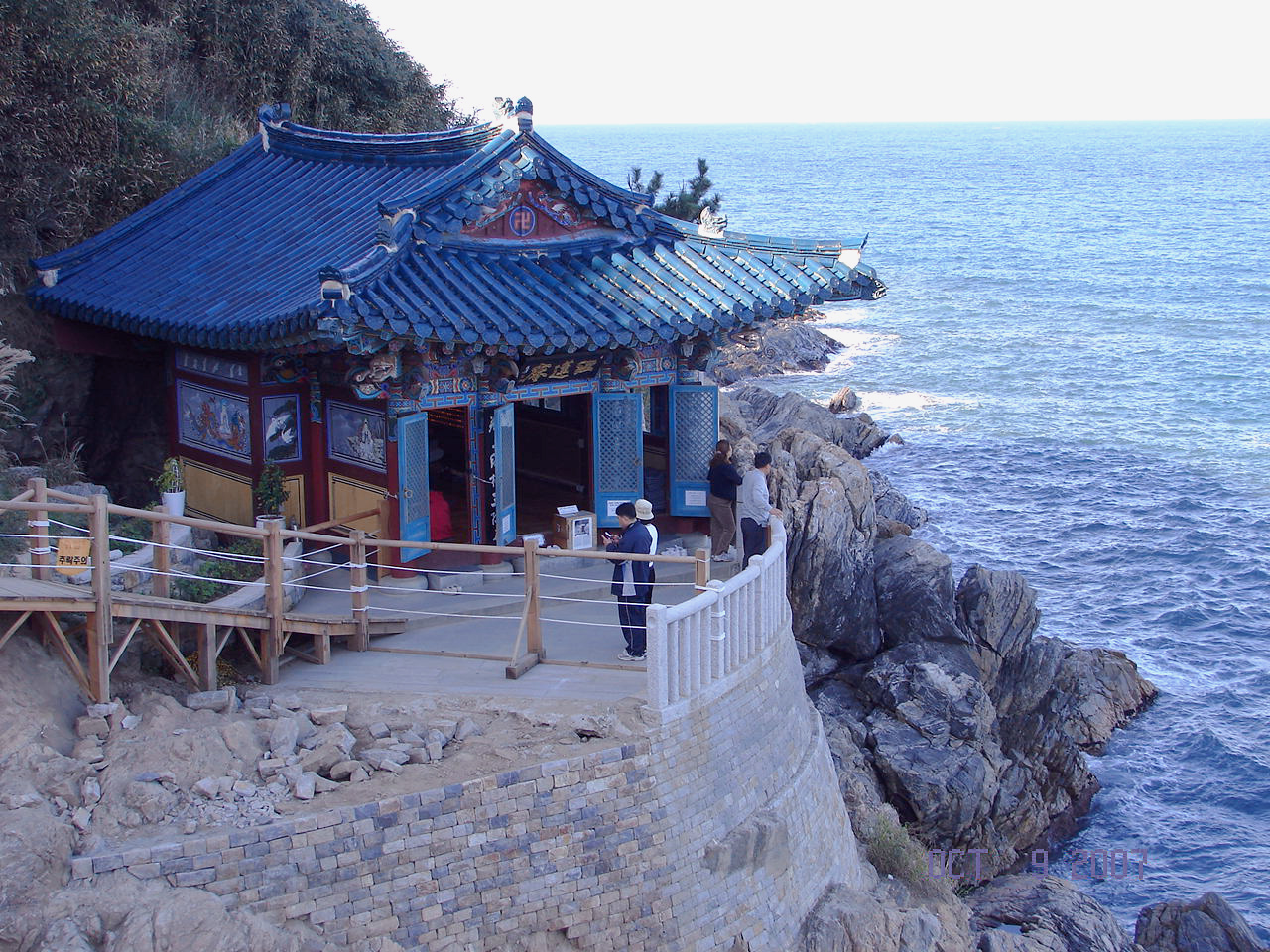 Hong Ryun Am at Naksansa nestled into the side of Naksan Mountain along the East Sea, not far from Sokcho South Korea